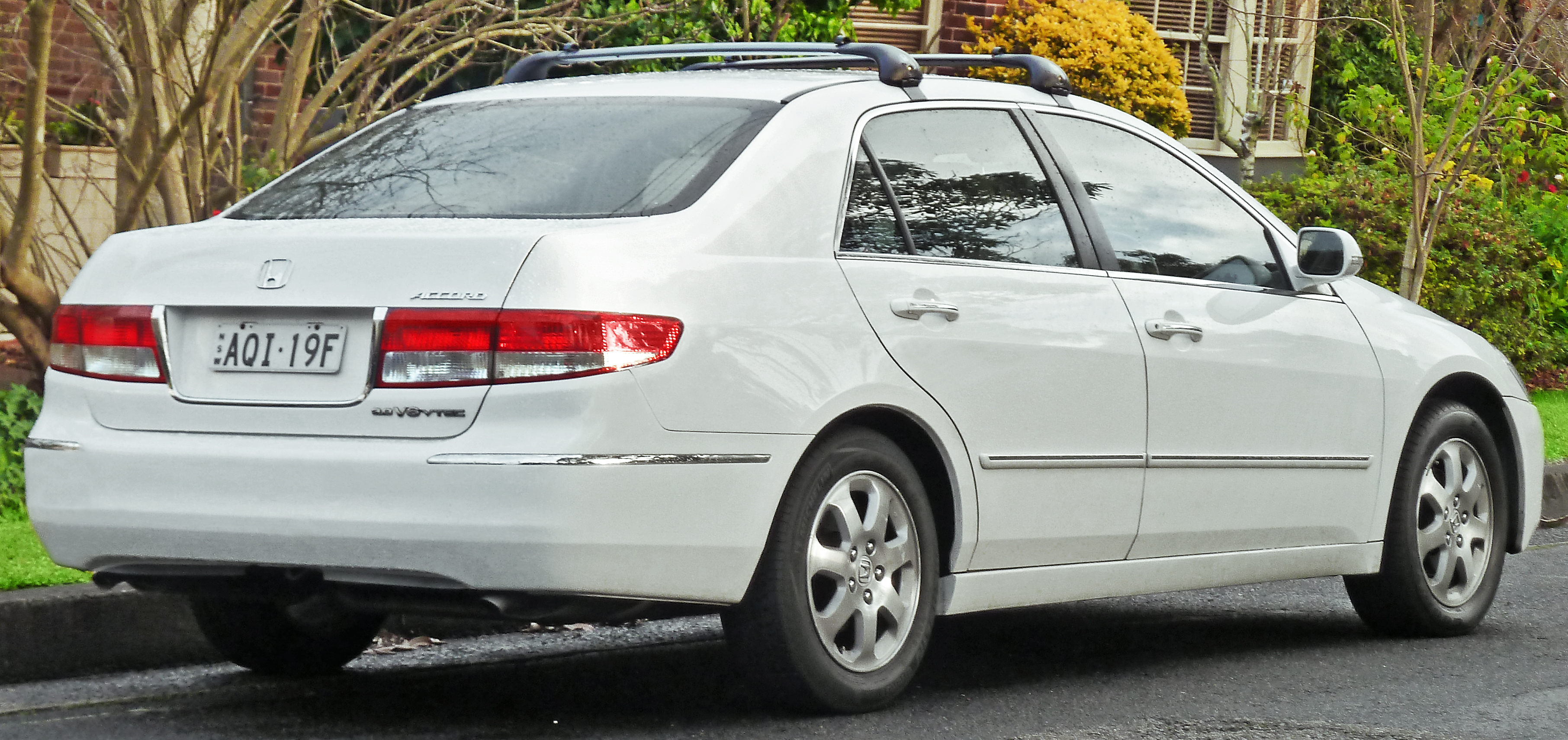 2003–2006 Honda Accord V6 sedan. Photographed in Roseville, New South Wales, Australia.